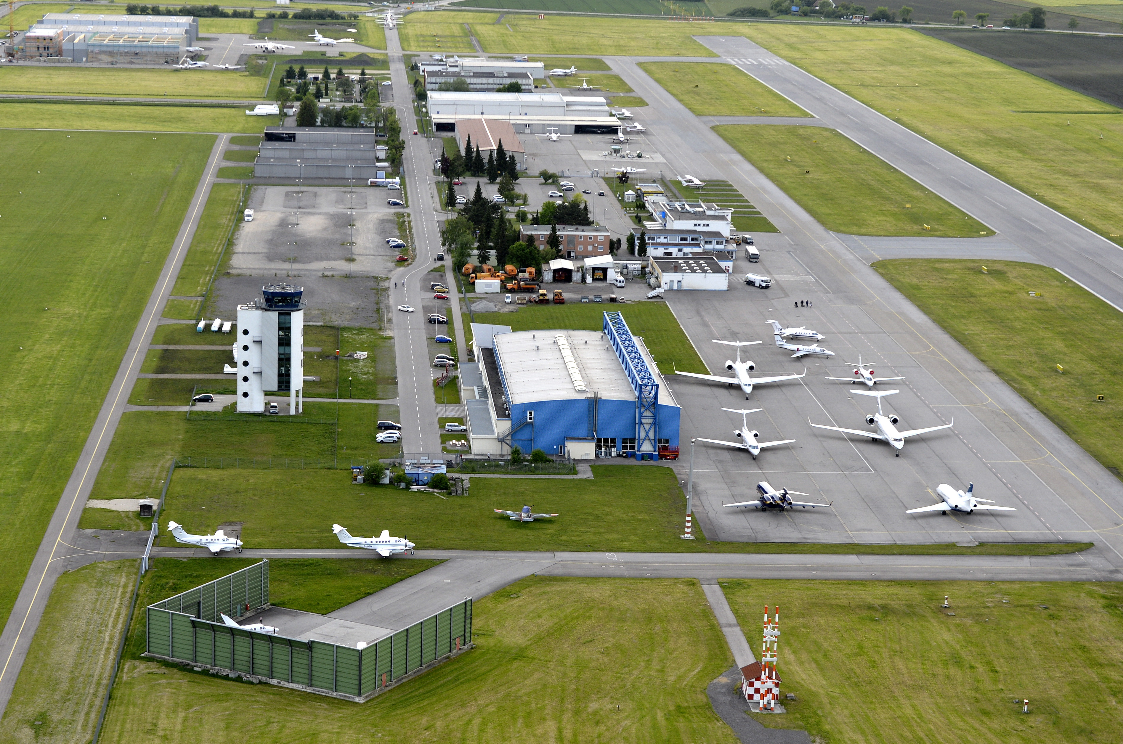 Augsburg Airport viewed from east Rnwy 25